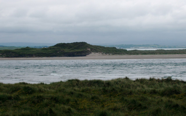 Bartragh Island from Bartragh Head The main channel of the River Moy estuary separates the dunes of Bartragh from the island